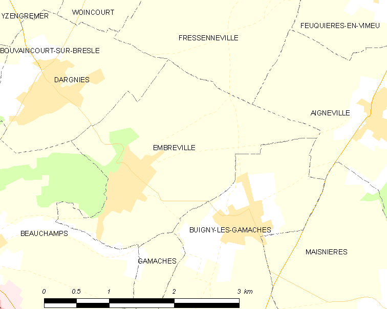 Map of French municipality Embreville